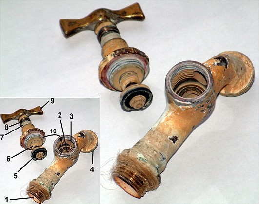 Watertap and its parts. Photographer: Anton (2005 rp)